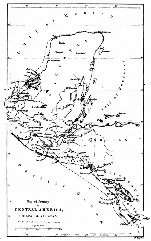 Image and caption are the same